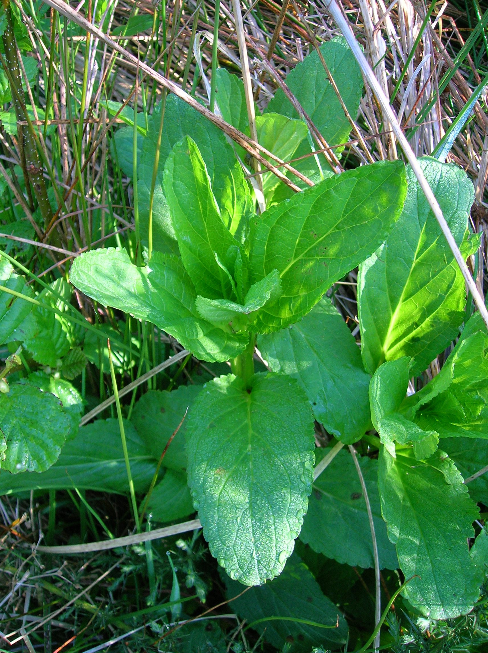 Scrophularia umbrosa - Green Figwort or Scarce Water Betony. Dalgarven Mill. Ayrshire. Scotland.